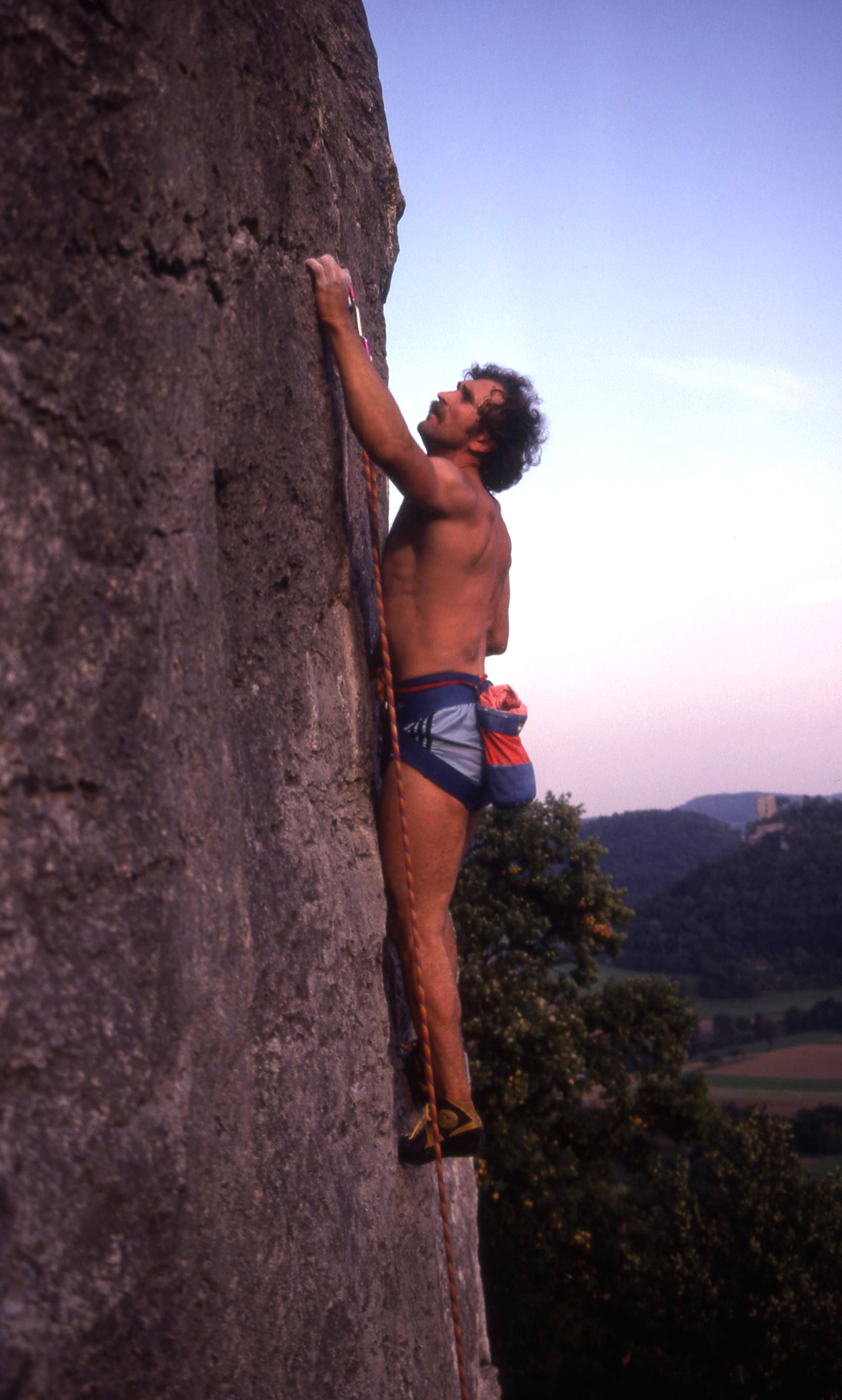 Kurt Albert, Frankenjura. Climbing at the rock "Streitberger Schild" near Streitberg with the Castle Neideck in the background.